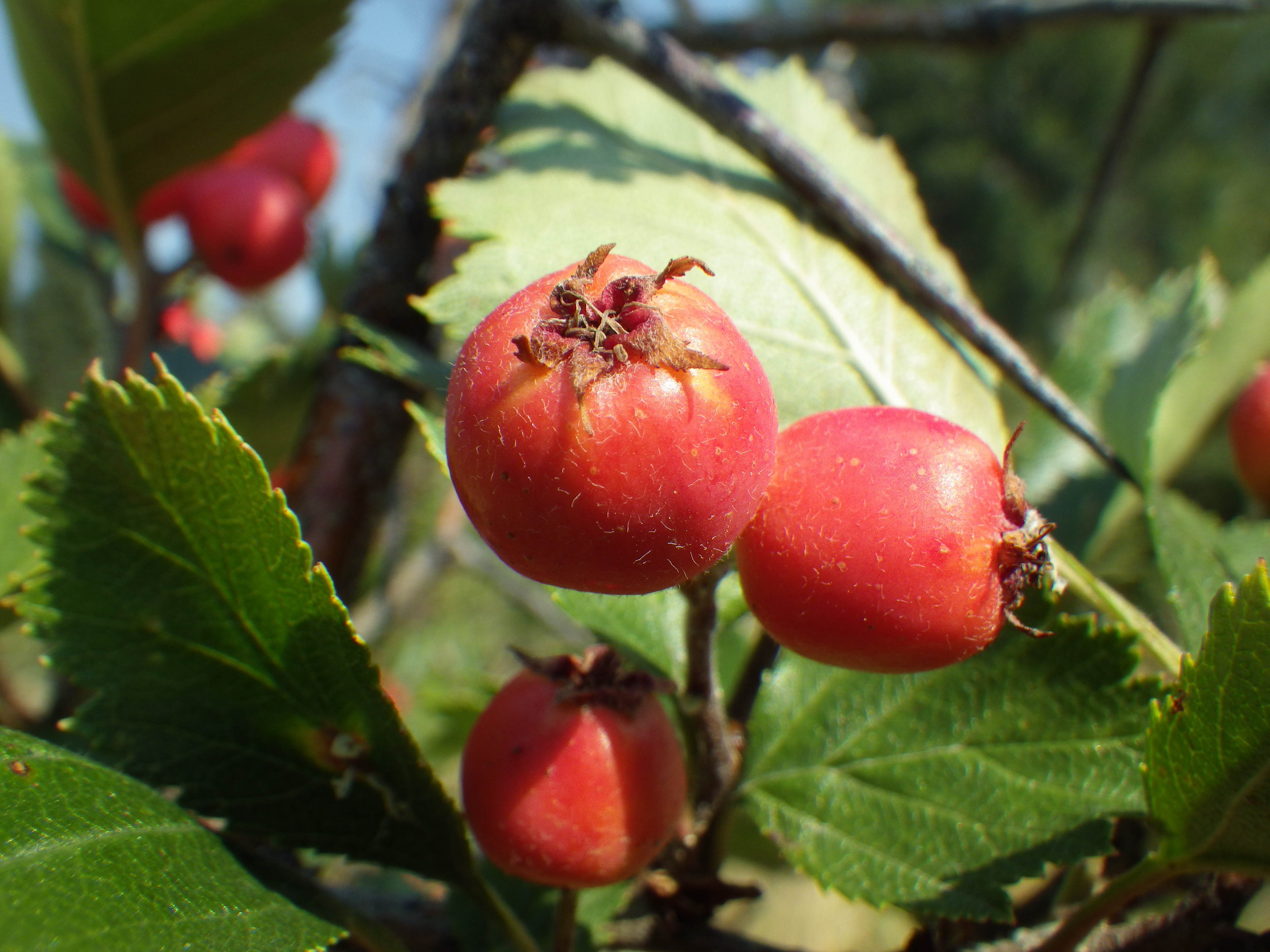 Of the two common species in Montana, Crataegus chrsyocarpa produces thorns over 3 cm long, red fruits, and leaves that gradually taper to the petiole (C. douglasii produces spines much less than 3 cm long and dark fruits).